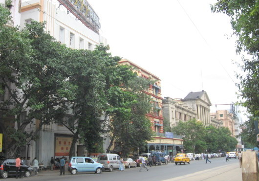 Own photograph